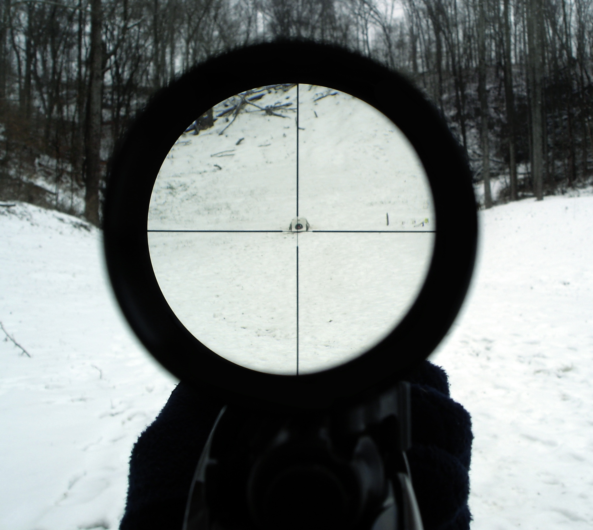 And edit of an image, which is displayed in talk. Rotated, cropped, value adjustment and colour alterations. Hereby released into public domain, just like the original :)